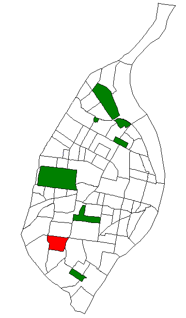 Map of St. Louis Neighborhood #07